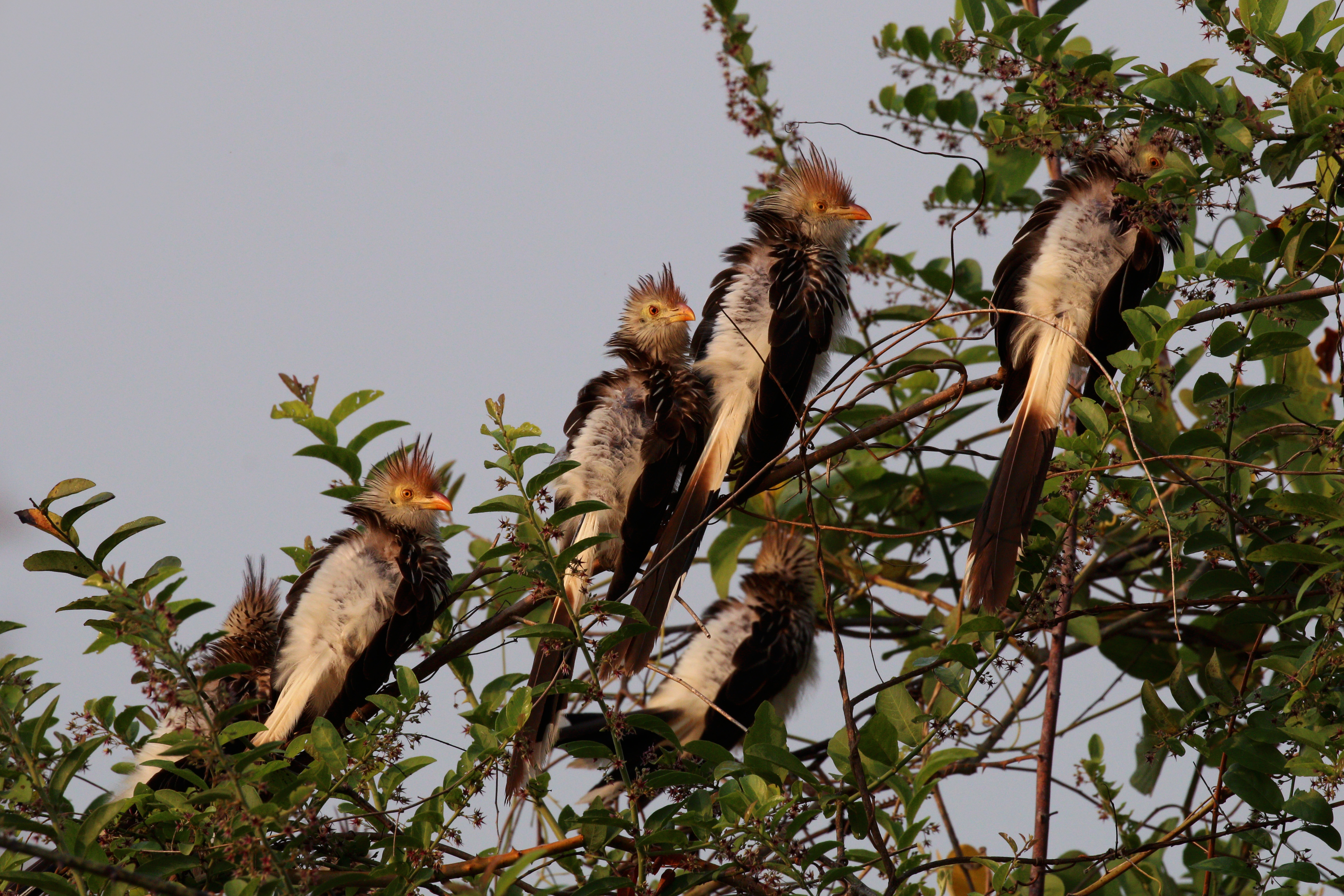 Guira cuckoos (Guira guira), the Pantanal, Brazil